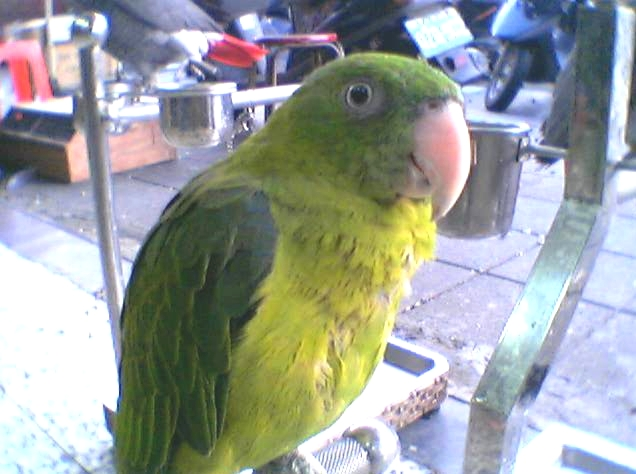 A female Blue-backed Parrot, also known as Müller's (Mueller's or Mullers) Parrot, or Azure Rumped Parrot. The horn coloured bill indicates that is is female.